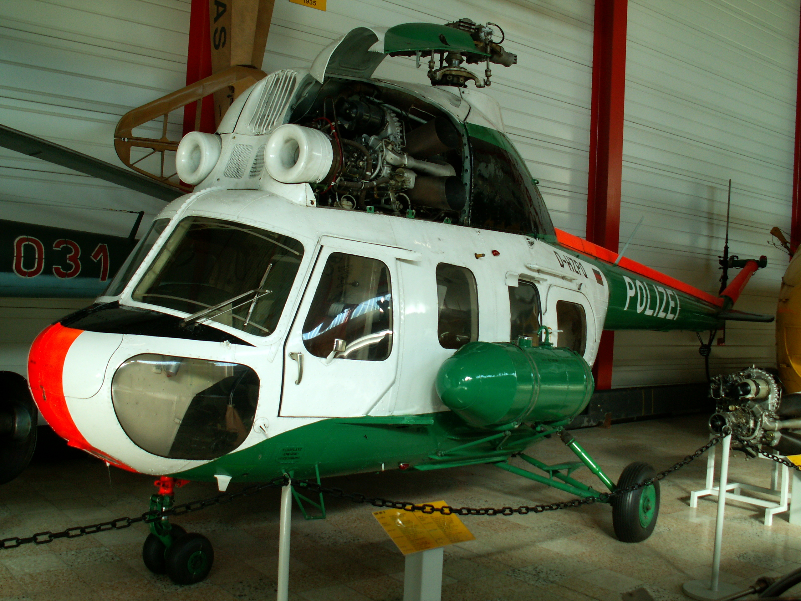 Photographed at the Aircraft museum in Hermeskeil Germany.